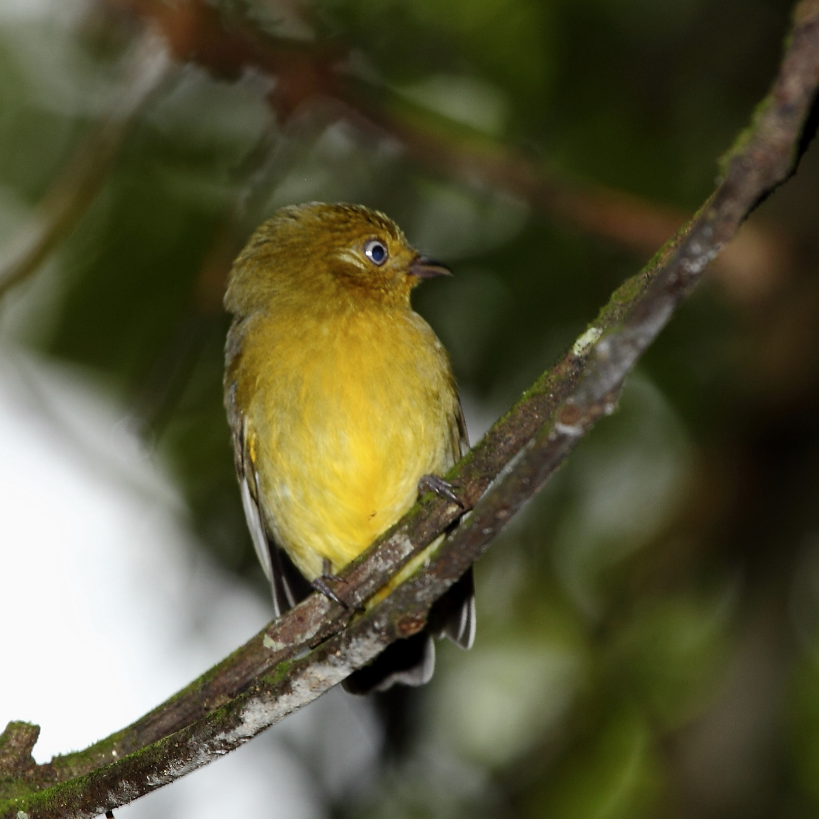 Band-tailed manakin (female) at Guaramiranga - Ceará - Brazil